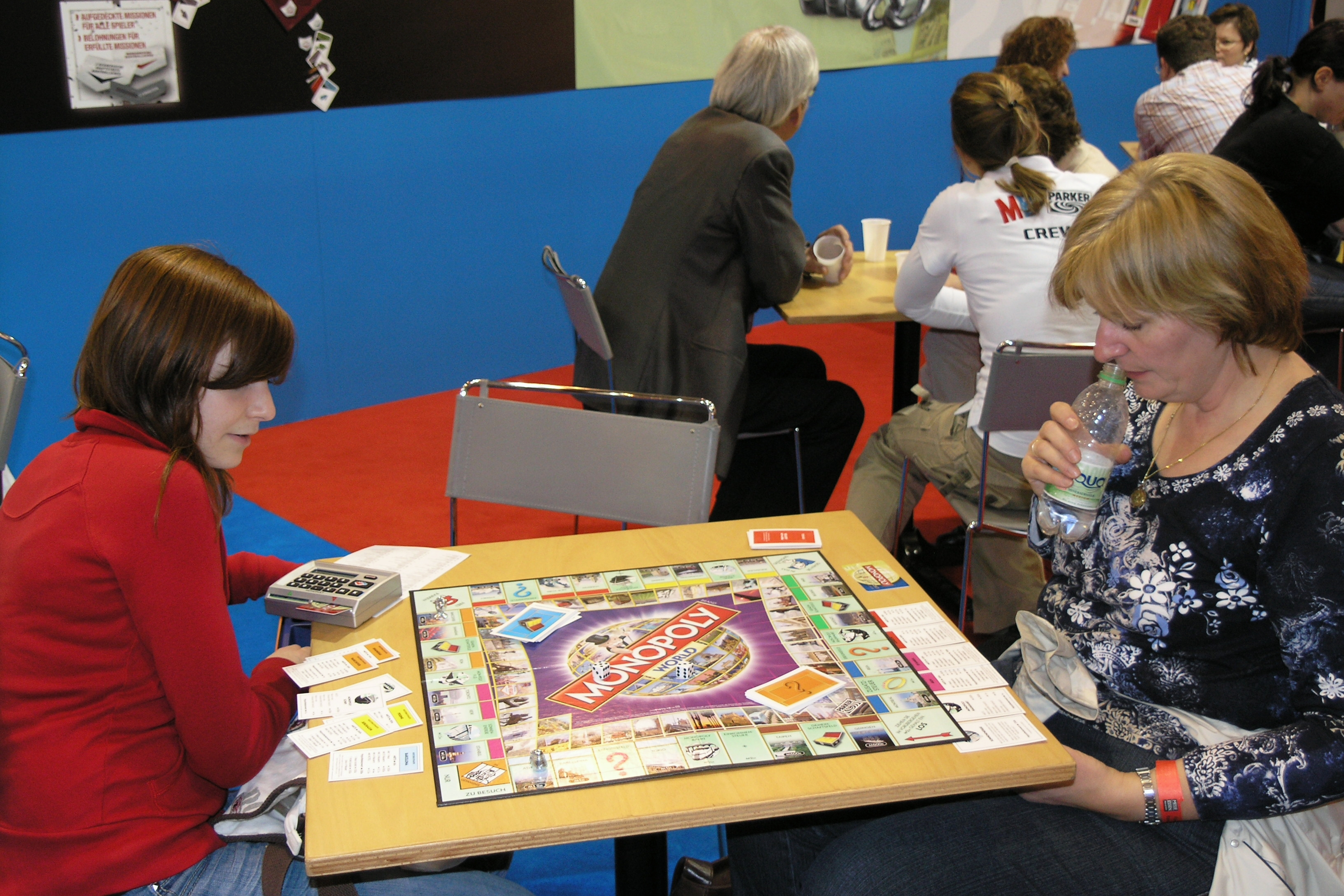 Personality rights warning Although this work is freely licensed or in the public domain, the person(s) shown may have rights that legally restrict certain re-uses unless those depicted consent to such uses. In these cases, a model release or other evidence of consent could protect you from infringement claims.